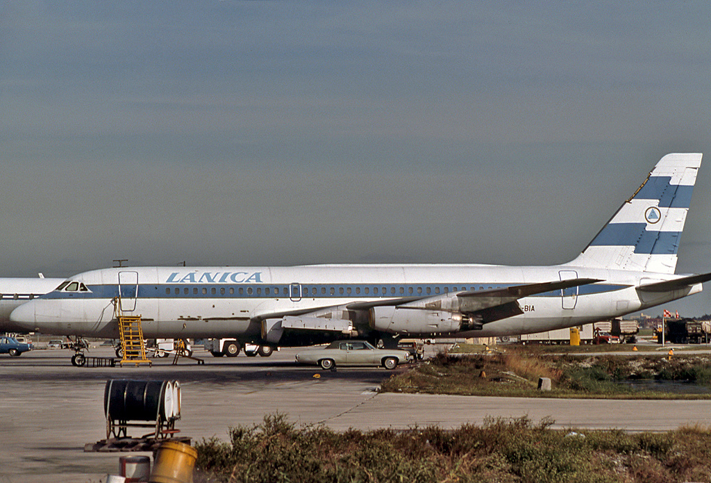 Lanica Convair 880 (22-1) at Miami International Airport